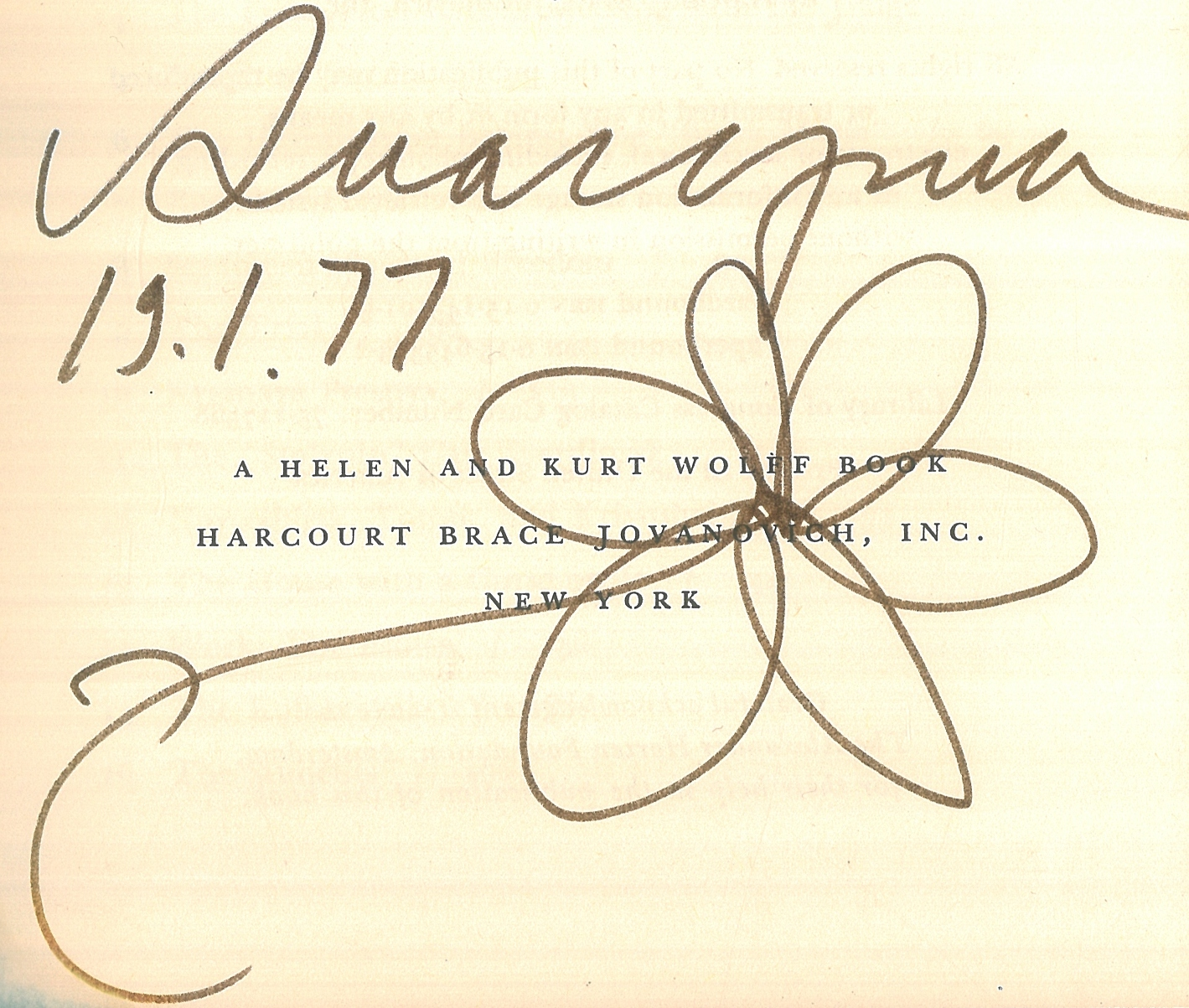 This is the signature of Soviet historian and human rights activist Andrei Amalrik (1938-1980) scanned from a copy of his book, Involuntary Journey to Siberia, which he autographed for the uploader on the occasion of Amalrik's lecture in Whittenberger Auditorium at Indiana University Bloomington on January 19, 1977.